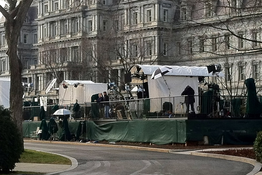 press setup on the west side of the north lawn of the White House. Live and other reports with the White House in the background are done from this location.